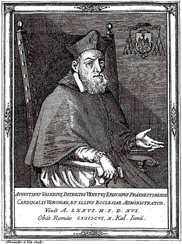 Portrait of Agostino Valier (1531-1606), Italian cardinal and bishop of Verona. He was born in Venice on April 7, 1531. He became a doctor of canon law. In 1576 he requested that the Jesuits be called to Verona to found a school.[1] He died in Rome on May 24, 1606